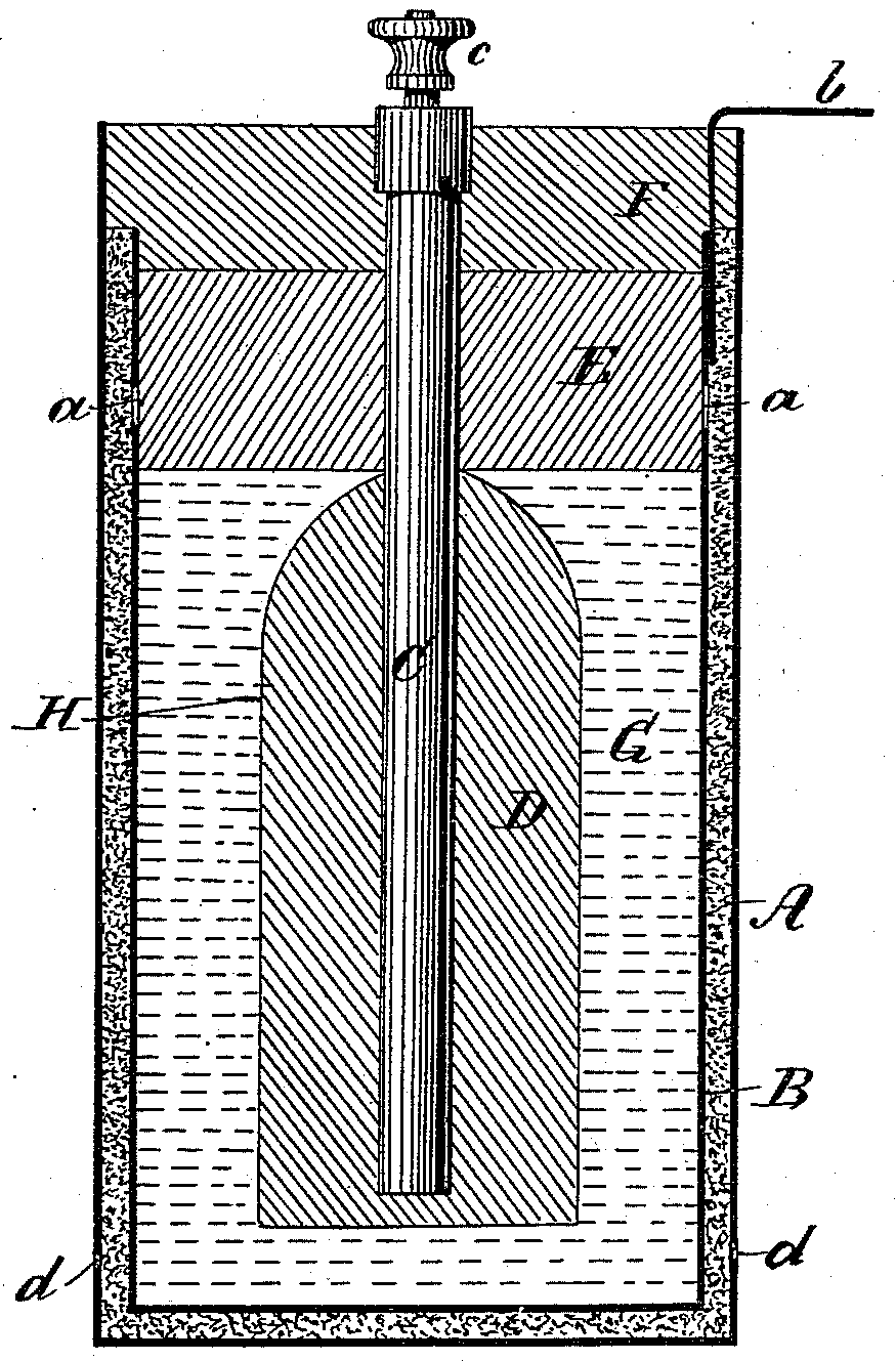 Dry cell battery by Wilhelm Louis Frederik Hellesen. US patent 439151